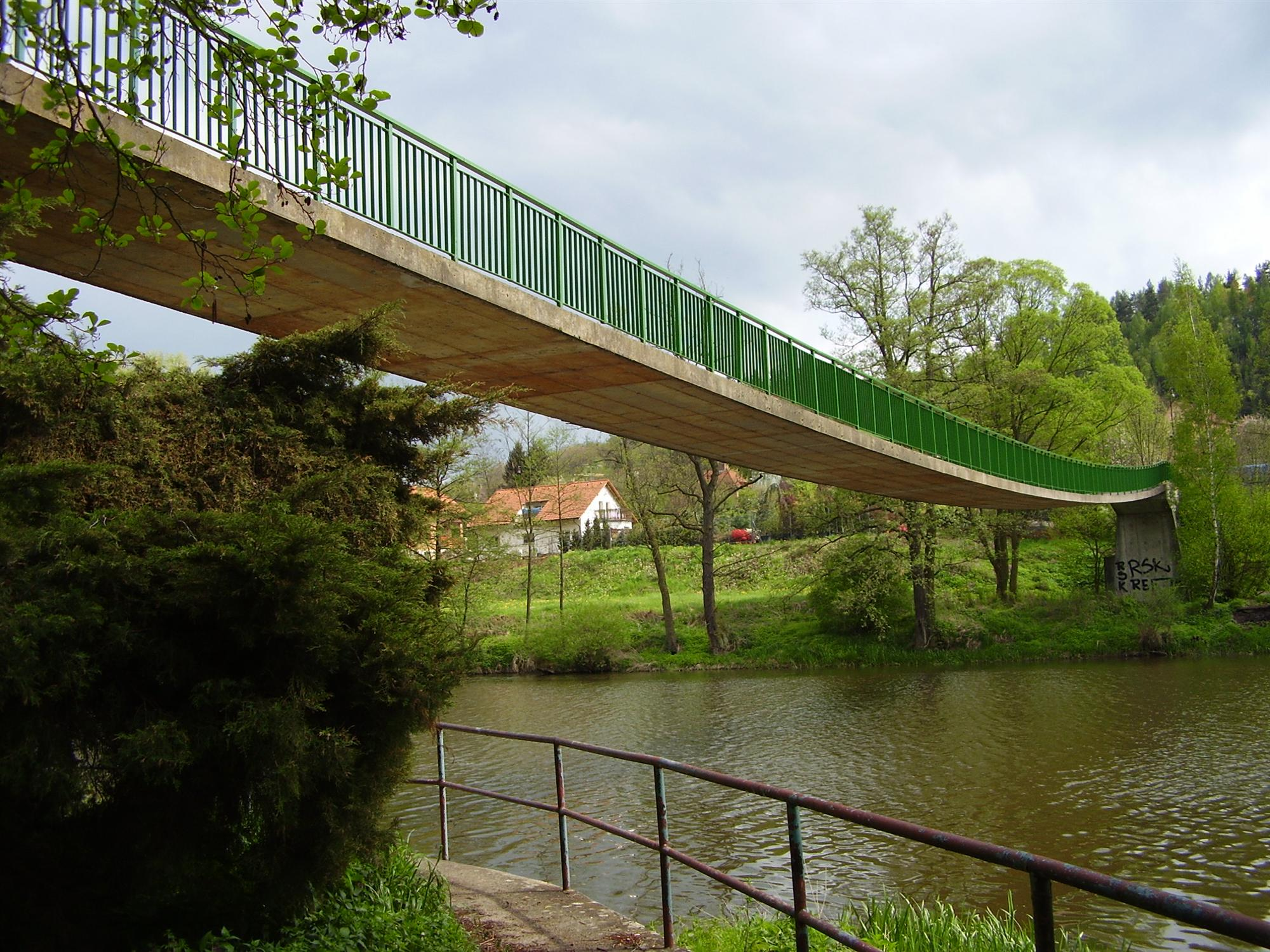 Footbridge over Sázava in Hvězdonice